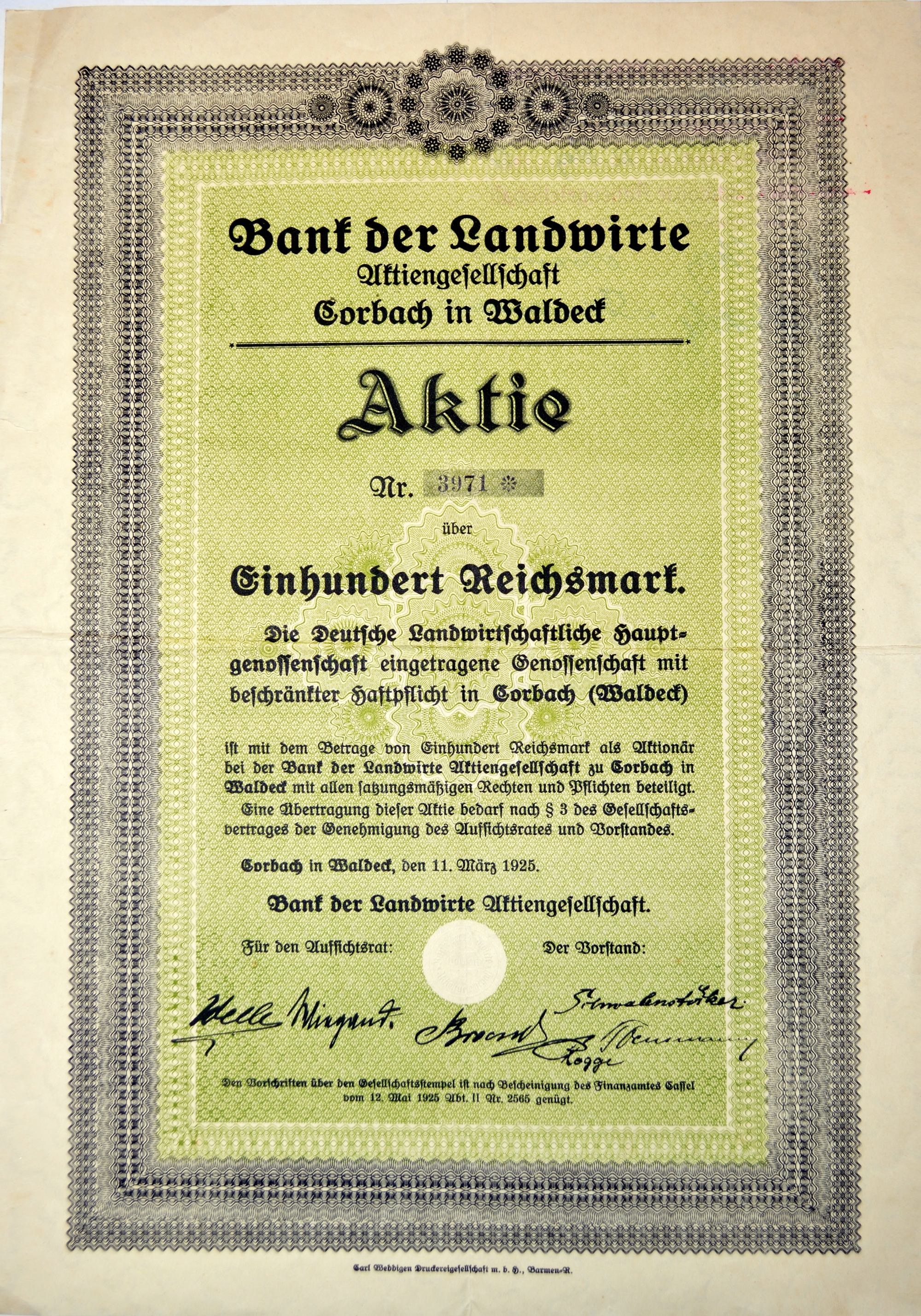 Stock - Bank of Agriculturists - 100 Reichsmark